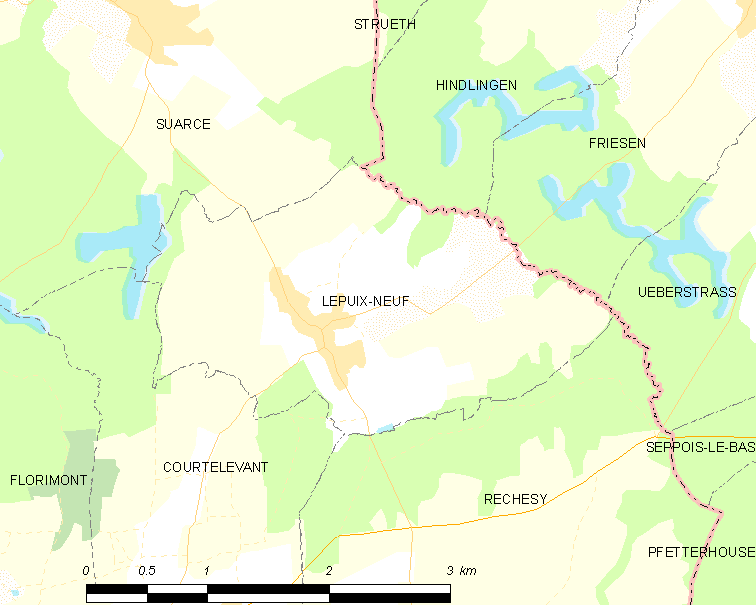 Map of French municipality Lepuix-Neuf